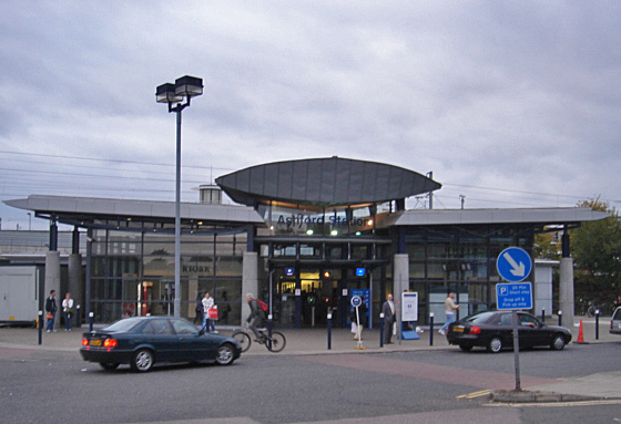 Entrance building and forecourt at Ashford International railway station. Photographed on en:29 September en:2007.